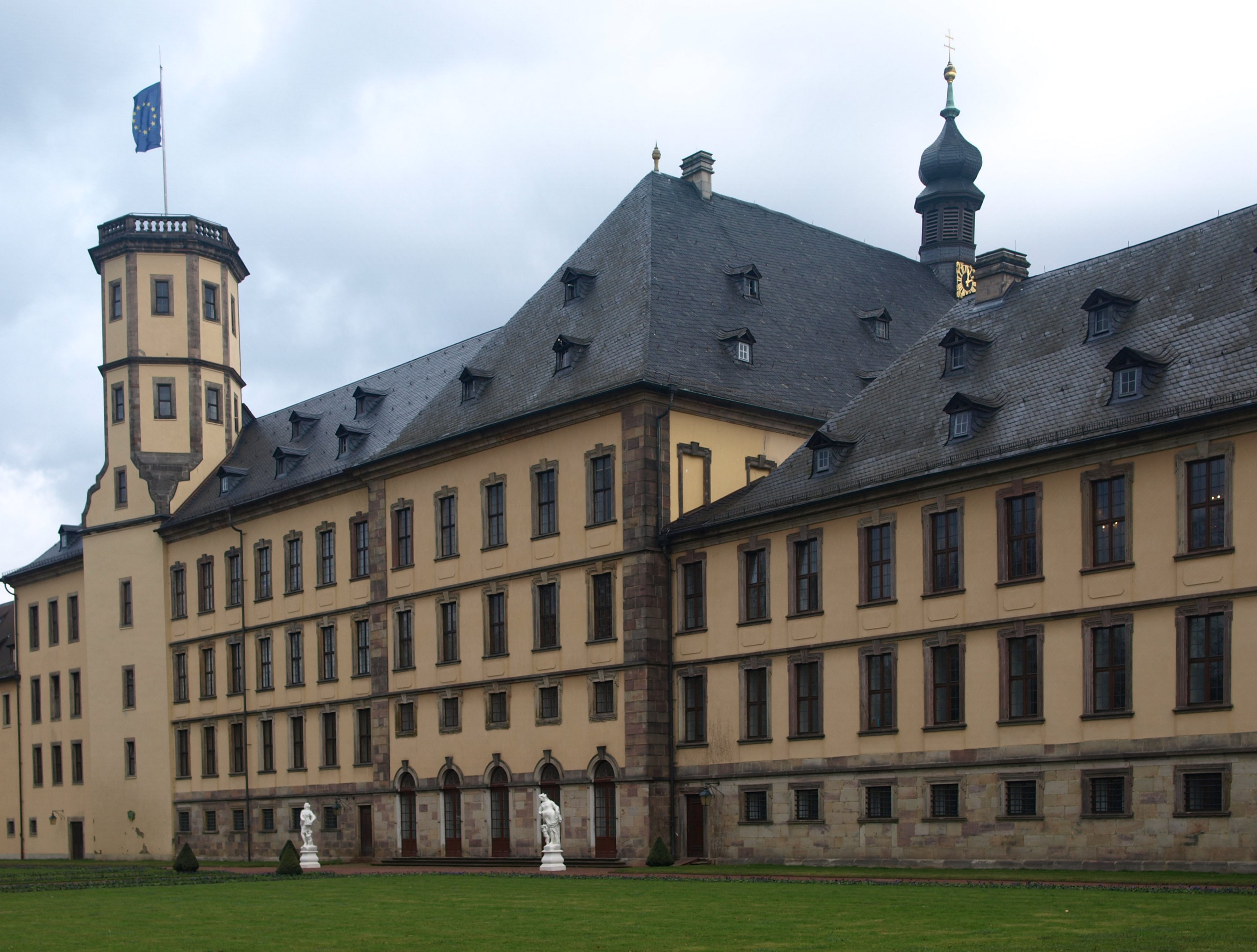 Front towards palace garden of the Stadtschloss in Fulda